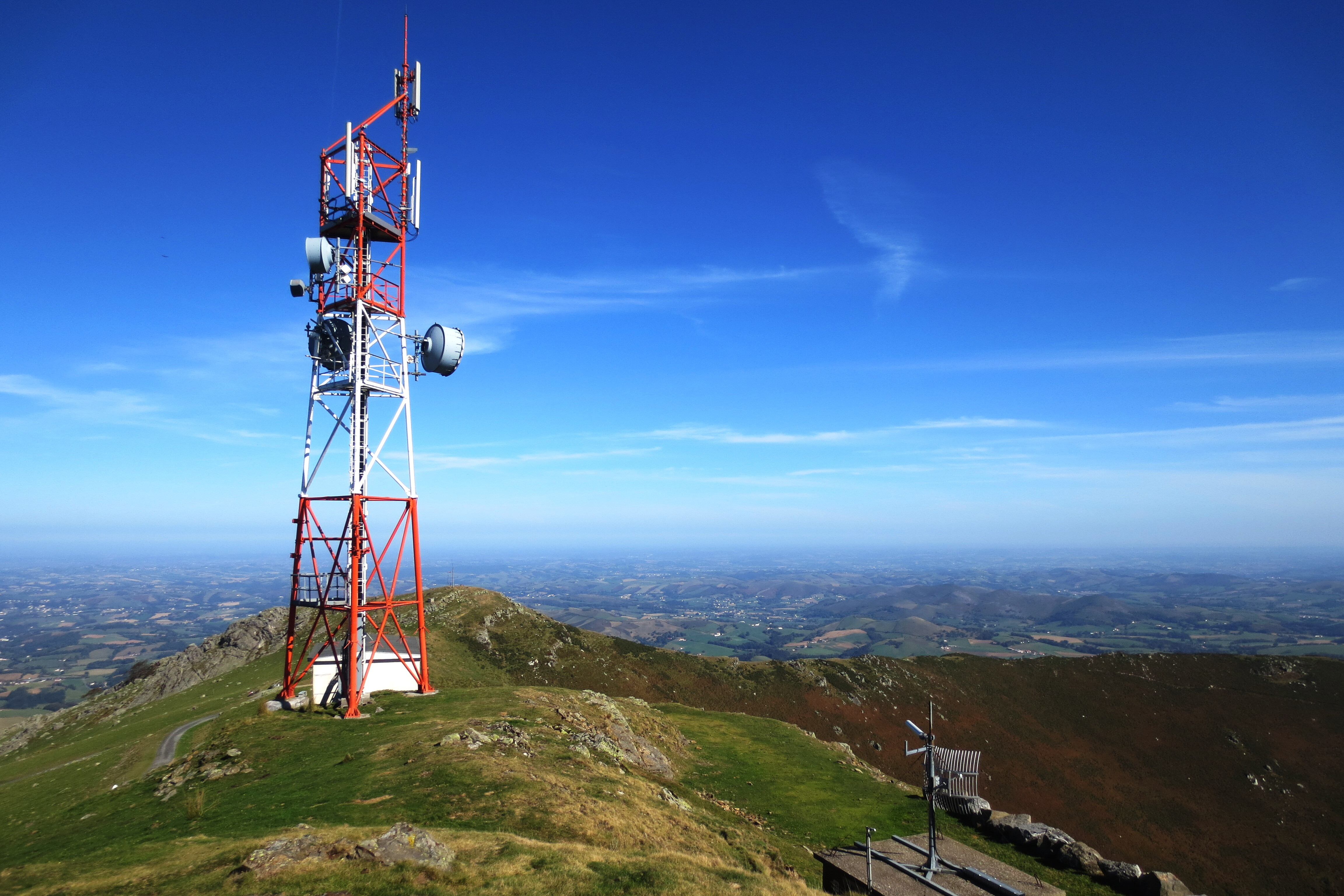 At the summit Baigura, Labourd in the background, Basque Country of France